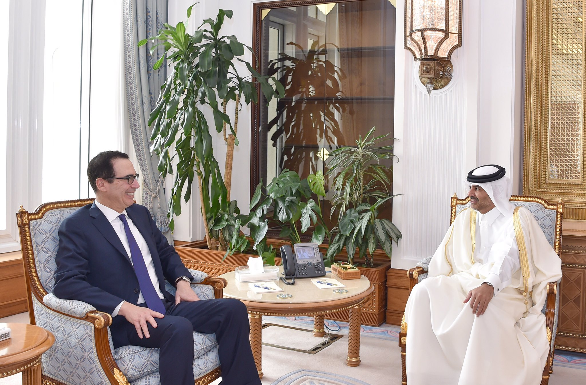 Good meeting with Qatari Prime Minister and Minister of Interior H.E. Khalid bin Khalifa bin Abdulaziz Al Thani. We discussed AML/CFT efforts and other security issues.